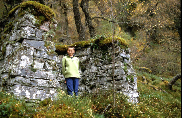 Fog house. This inconspicuous ruin is the remains of a fog house or summer house near to the site of the one time 'New' Mar lodge or Corriemulzie Cottage. It lies on the south side of old drive from New Mar Lodge to Inverey.